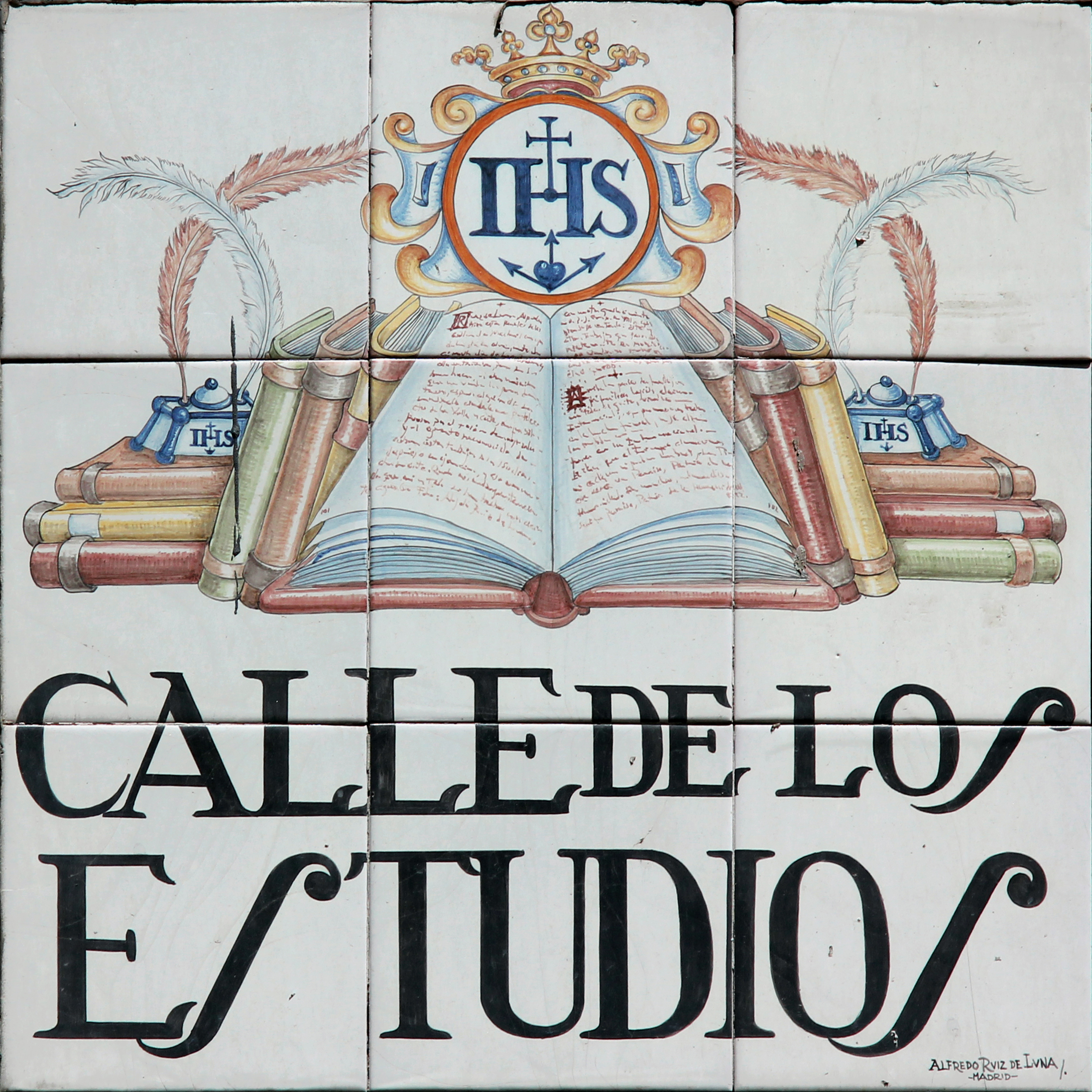 Sign of Calle de los Estudios (street) in Madrid (Spain).